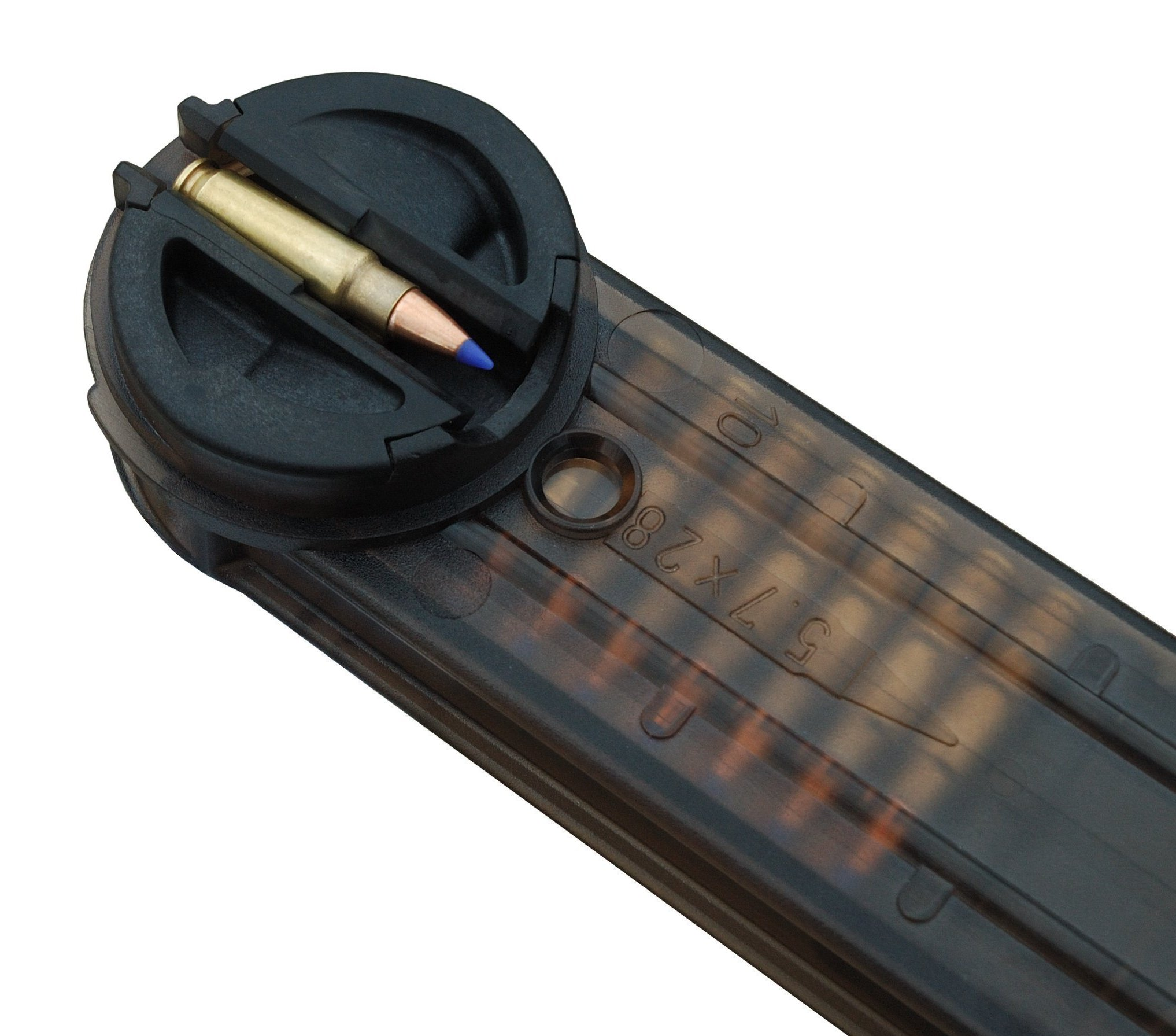 Partially loaded FN P90 magazine; ammunition pictured is 5.7x28mm SS197SR.